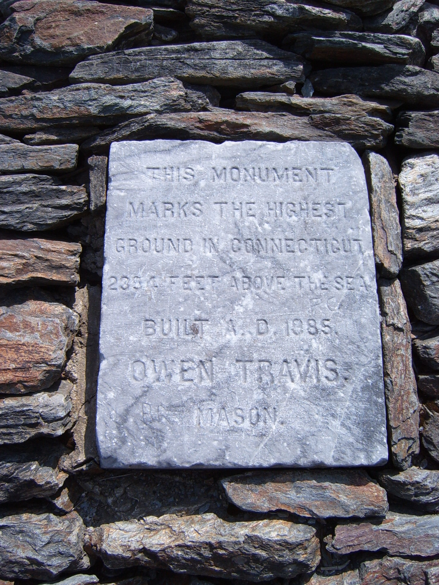 Taken with digital camera in June, 2005. image created by uploader The current estimate of the height of the summit is only 2,316 feet 706 m; and although it is the highest peak in Connecticut, it is not actually the highest point in the state. That distinction belongs to an anonymous location just east of the point where Connecticut, Massachusetts, and New York meet (42° 3' N; 73° 29' W), on the southern slope of 2,453 foot (747 m) high Mount Frissell, whose peak lies 740 feet (225 m) north in Massachusetts.